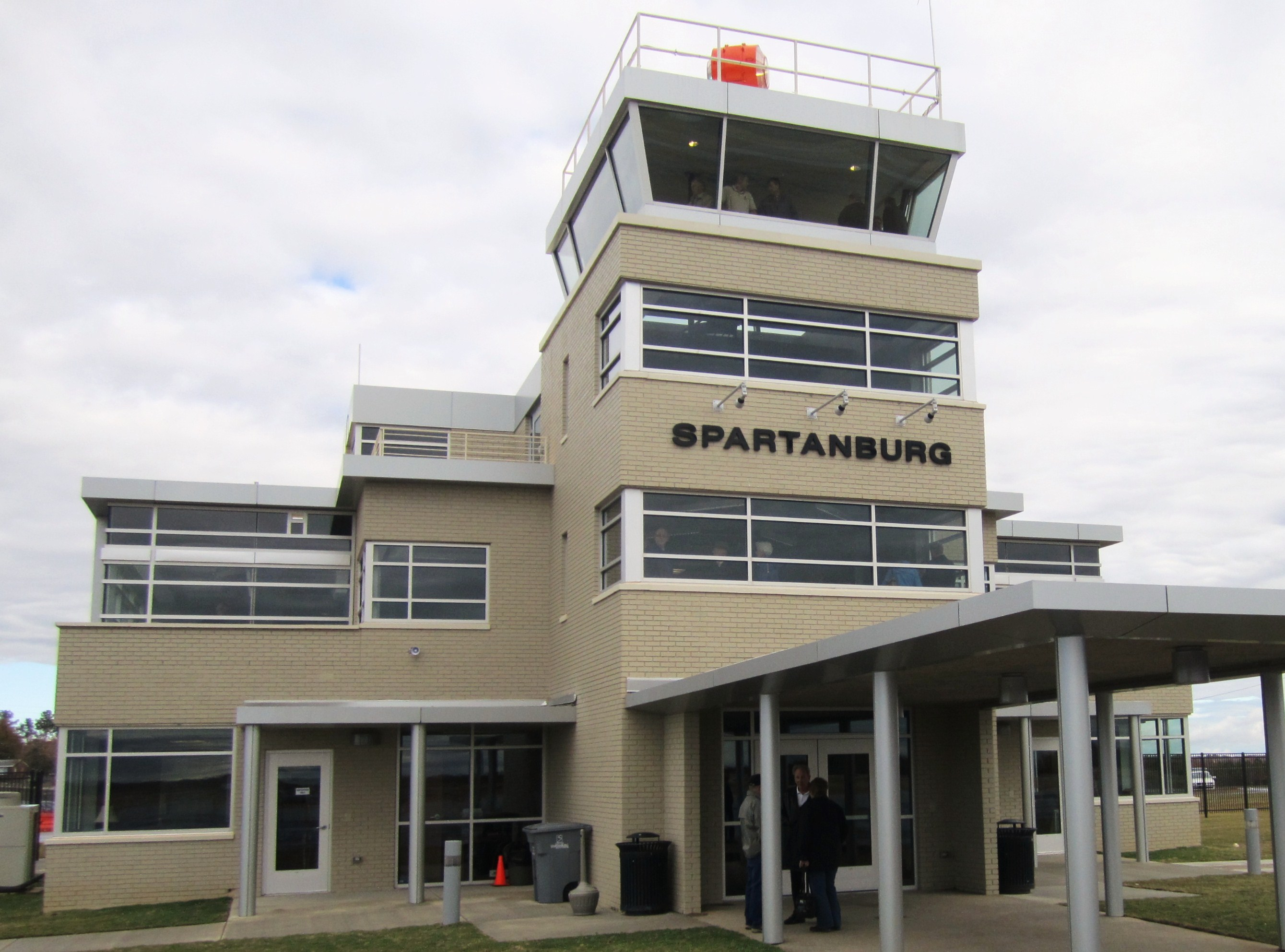 The original 1936 terminal building at the Spartanburg Downtown Memorial Airport was renovated and expanded in 2011.